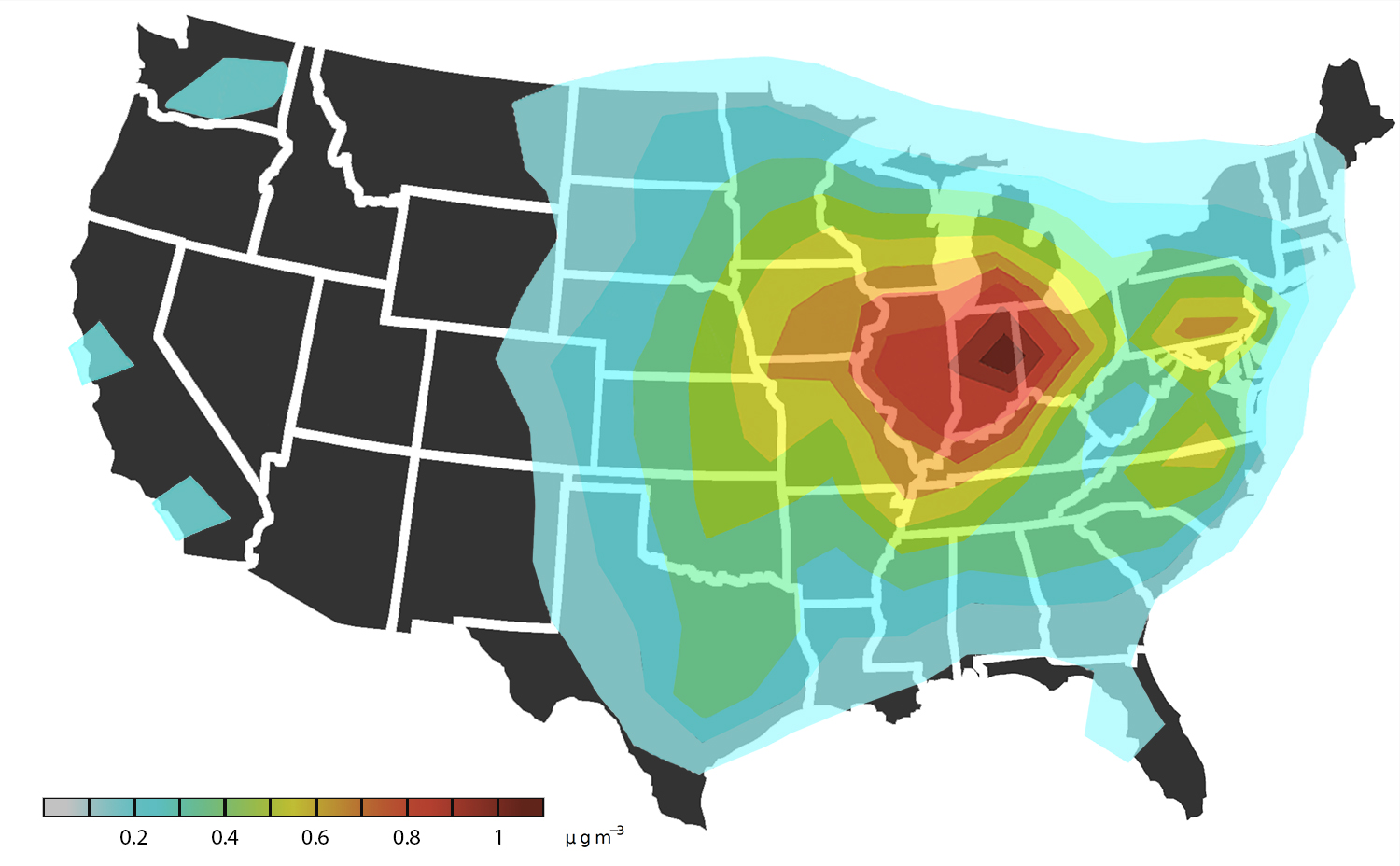 Ammonia pollution from agricultural sources poses larger health costs than previously estimated, according to NASA-funded research. The map shows increase in annual mean surface concentration of particulate matter resulting from ammonia emissions associated with food export. Populated states in the Northeast and Great Lakes region, where particulate matter formation is promoted by upwind ammonia sources, carry most of the cost. Read more about this study here: Credit: NASA AQAST/Harvard University NASA image use policy. NASA Goddard Space Flight Center enables NASA’s mission through four scientific endeavors: Earth Science, Heliophysics, Solar System Exploration, and Astrophysics. Goddard plays a leading role in NASA’s accomplishments by contributing compelling scientific knowledge to advance the Agency’s mission. Follow us on Twitter Like us on Facebook Find us on Instagram